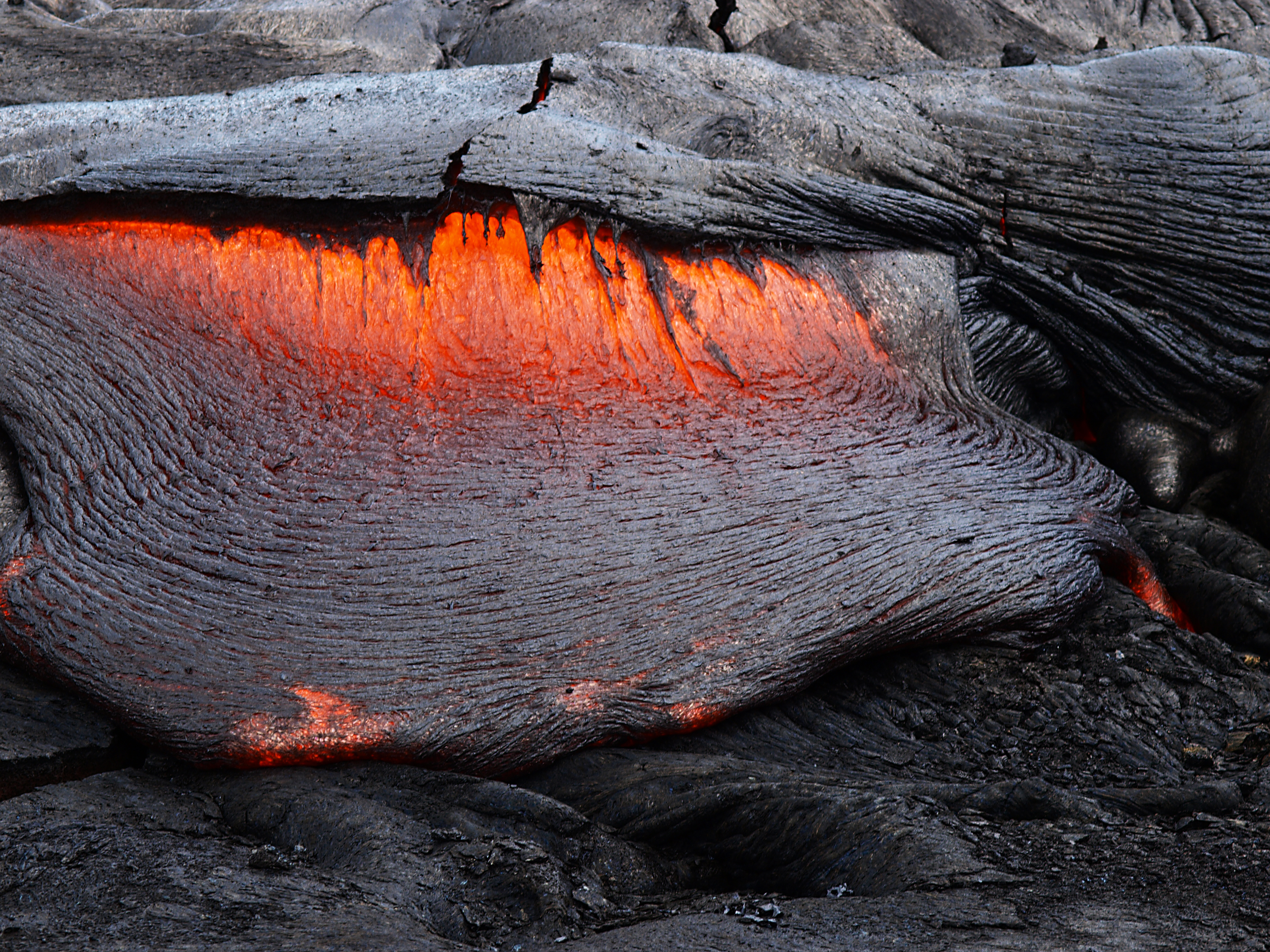 Pahoehoe lava is forming ropy lava at Kilauea volcano in Hawaii.